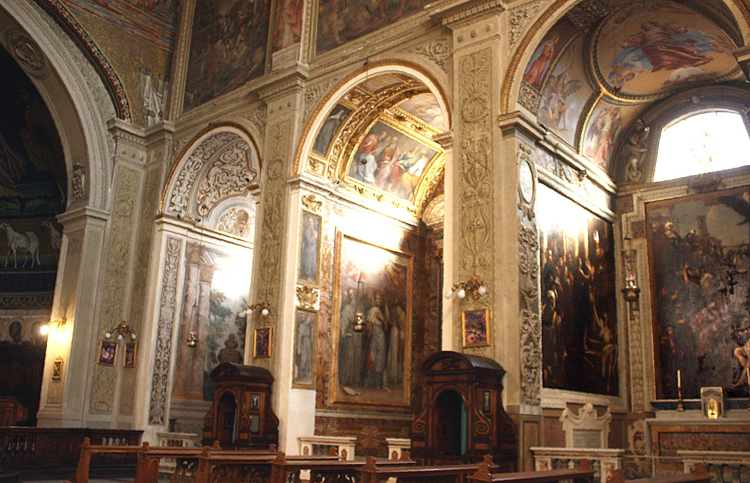 Rome, church Santi Cosma e Damiano, inner view